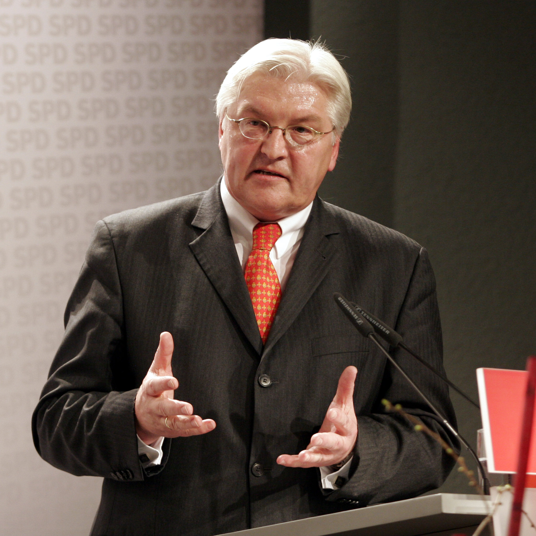 Frank-Walter Steinmeier, foreign minister (Secretary of State) of Germany and Vice-Chancellor of Germany, during an election campaign in Bensheim (Hesse, Germany)